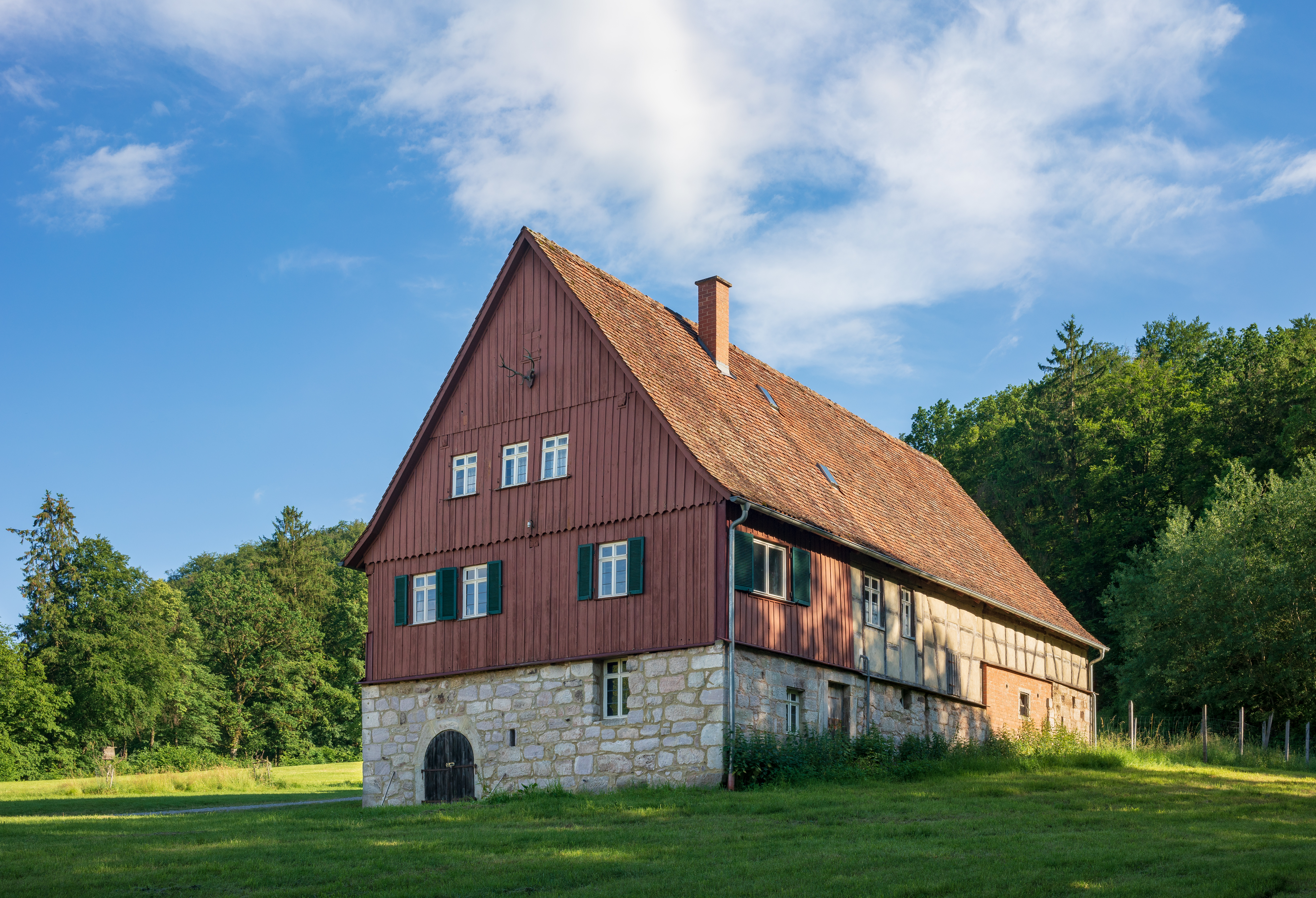 Hohenloher Freilandmuseum at Wackershofen, Schwäbisch Hall, Germany: the old forester’s house from the Joachimstal on its clearing, seen from the north.